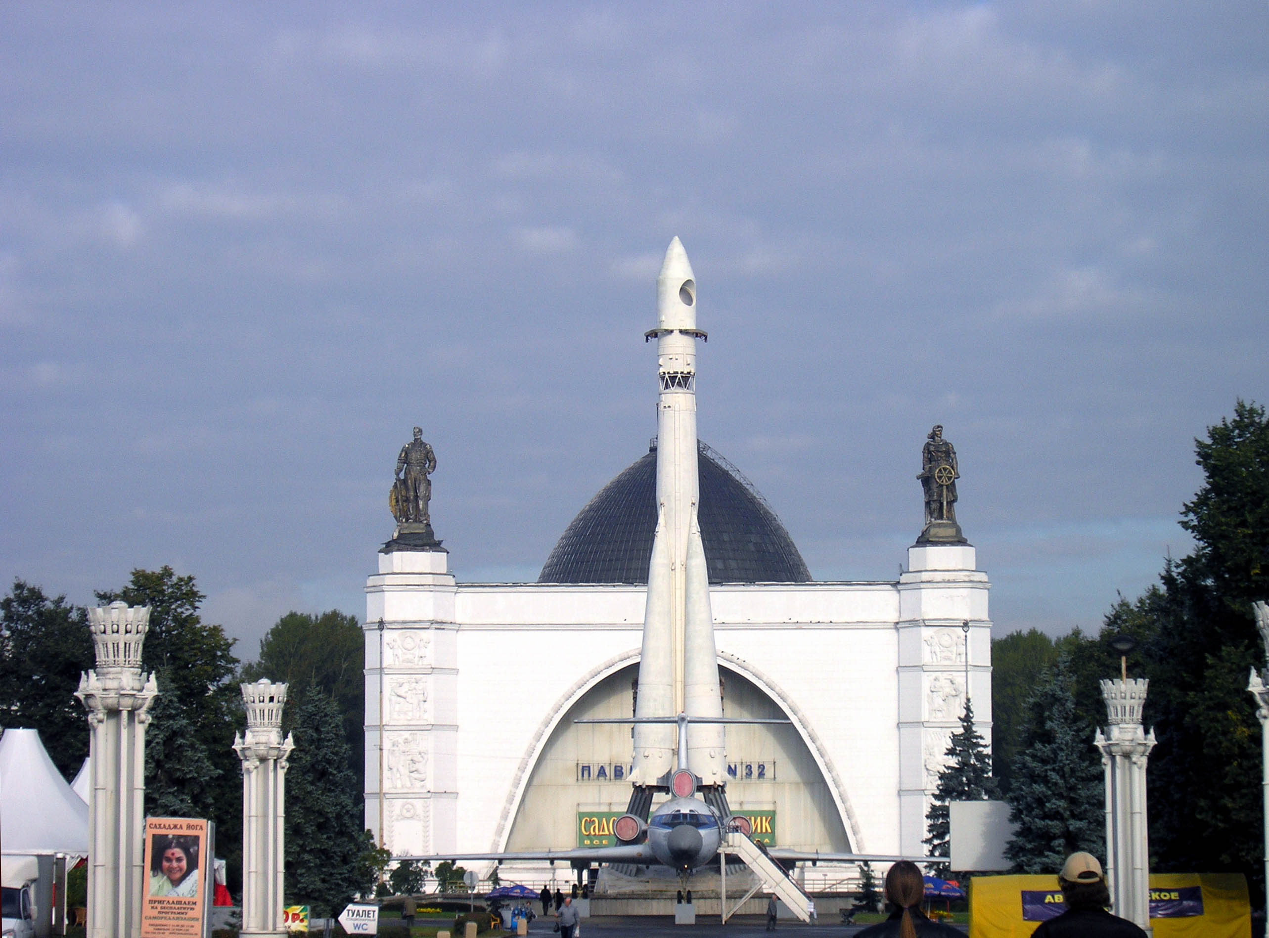 "Space" pavilion. All-Russian Exhibition Center. Moscow, Russia.